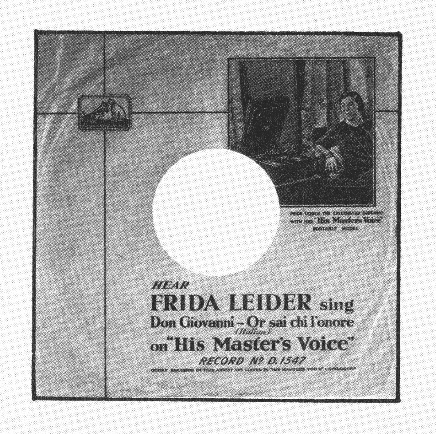 Deutsch singer, Frieda Lieder, record sleeve.